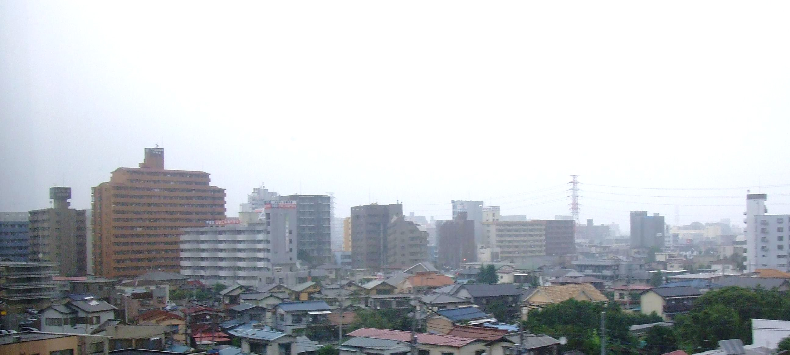 Skyline of Utsunomiya, Tochigi